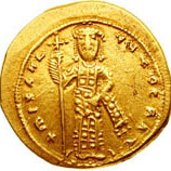 MICHAEL VI, Stratioticus. 1056-1057 AD. AV Tetarteron (4.06 gm). Constantinople mint. MHP QV, facing nimbate bust of Mary orans / + MIXAHL AUTOCRAT', Michael, crowned and garbed in loros, standing on footstool, holding long cross and akakia. DOC III 2.2; BN 1; SB 1841. Good VF. Rare. ($2000) Michael served in the office of logothetes tou stratiotikou (approximately a comptroller for military finances) and his elevation to the throne after the death of Theodora was a rather sly maneuver by court grandees to take control of the government. The church, the aristocracy and the army all took a dim view of this, and the hapless Michael proved unable to win them over. When the general Isaac Comnenus revolted in June 1057 Michael quickly acceded to his demands for power sharing, but a few months later a conspiracy amongst the factions in Constantinople forced Michael's complete abdication.